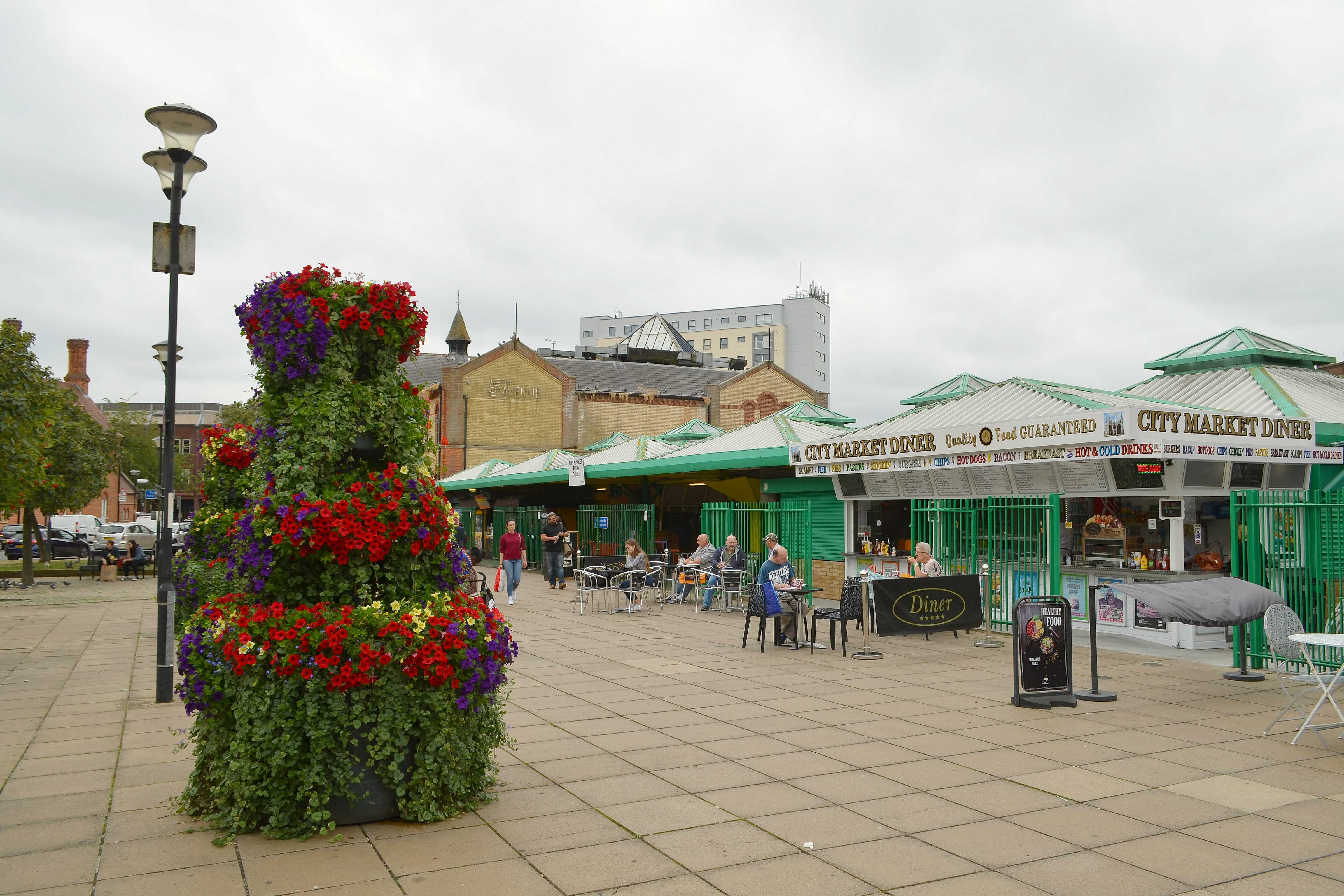 Peterborough market in July 2017